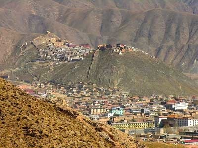 Panorama of Gyegu town and monastery (2005)